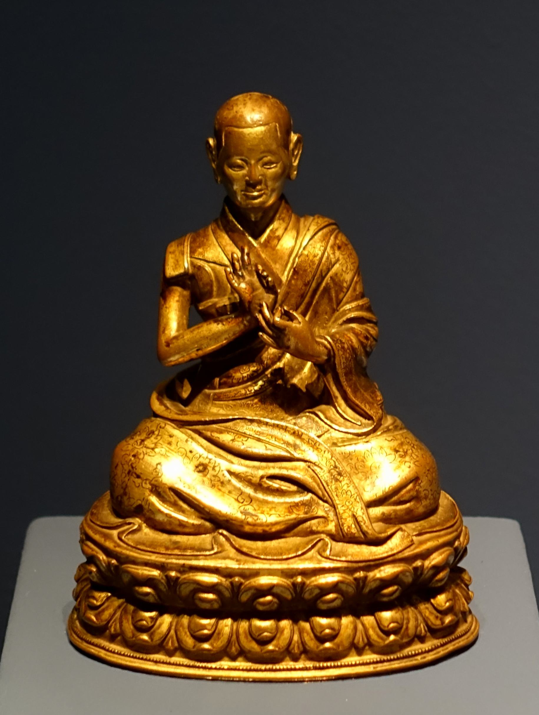 Exhibit in the Linden-Museum - Stuttgart, Germany.